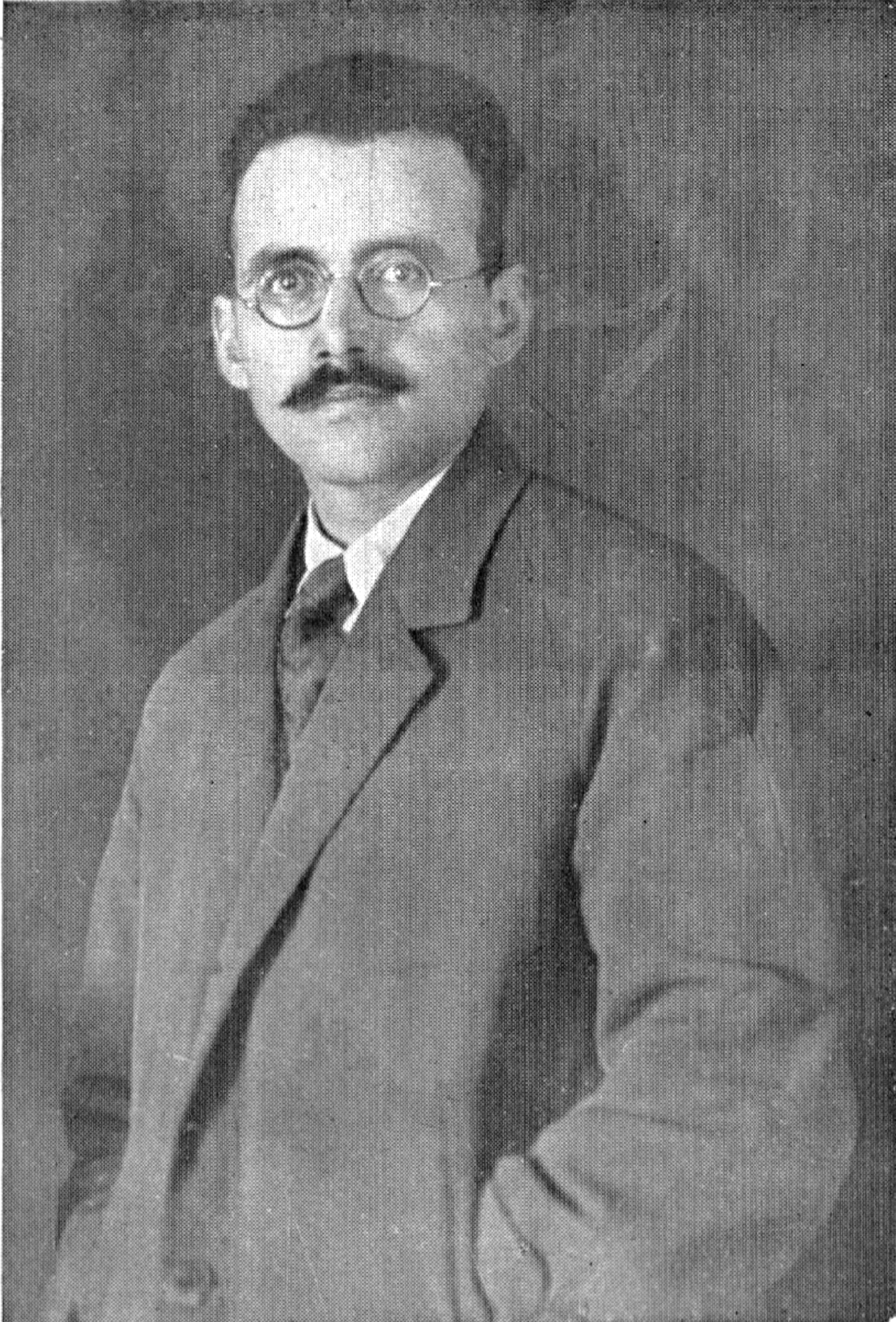 Photo of Ivan Momchilov.